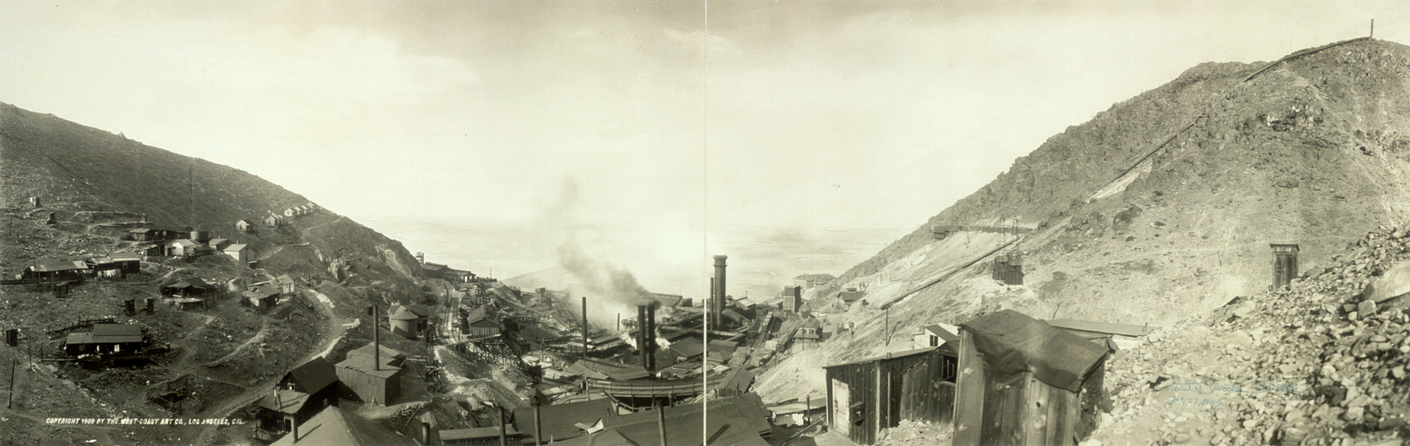 Panorama of the early 20th-century smelter at Jerome in the U.S. state of Arizona. The smelter was part of the infrastructure associated with the United Verde copper mine. It was replaced by a smelter in Clarkdale, Arizona, when the mine was converted to an open-pit operation in about 1915.